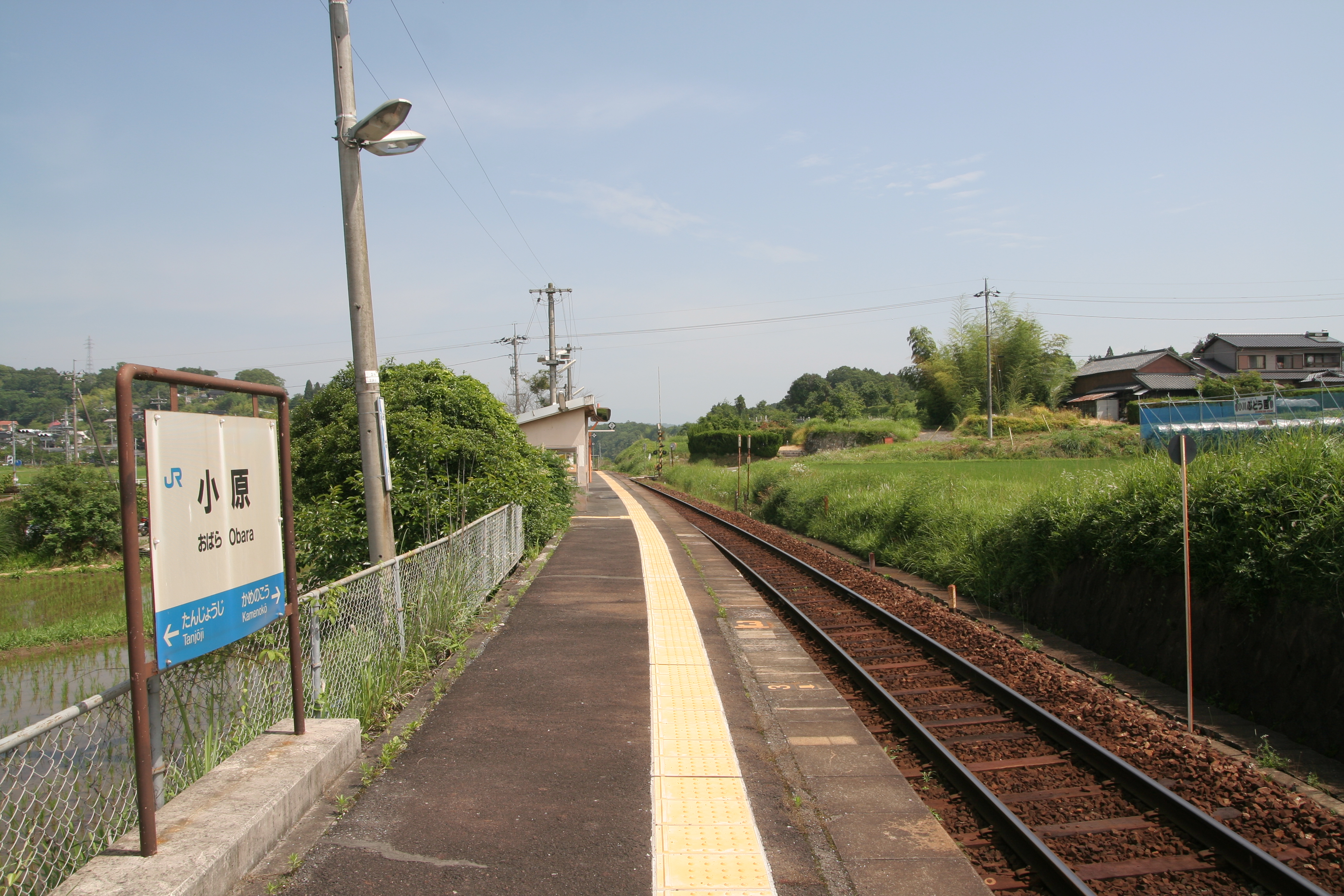 West Japan Railway Company Tsuyama Line Obara station enclosure in Misaki-town, Kume-gun Okayama pref. Japan